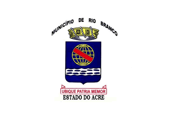 Bandeira de Rio Branco, Acre, Brasi - Flag of the city of Rio Branco, Acre, Brazil